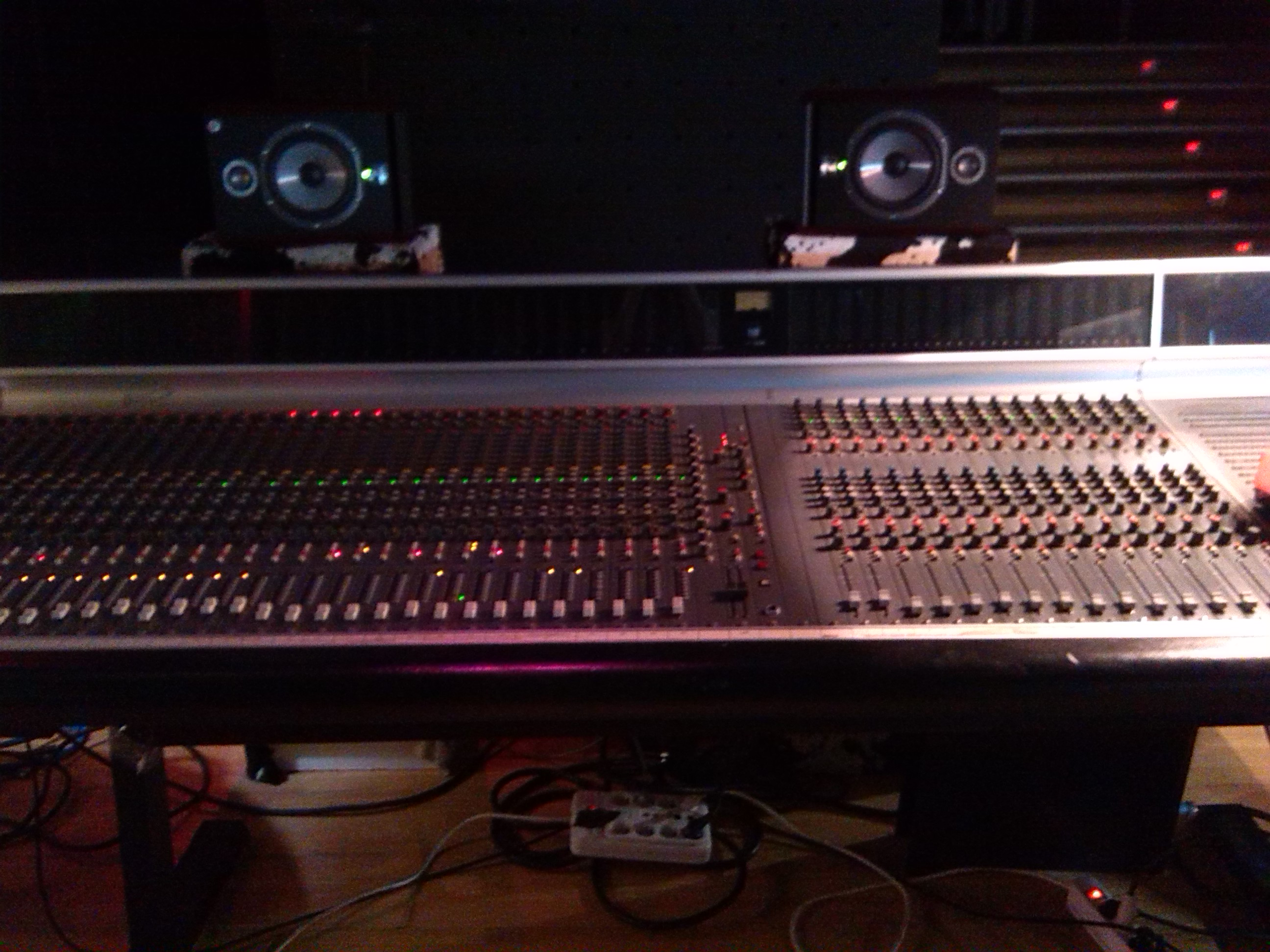 Control room